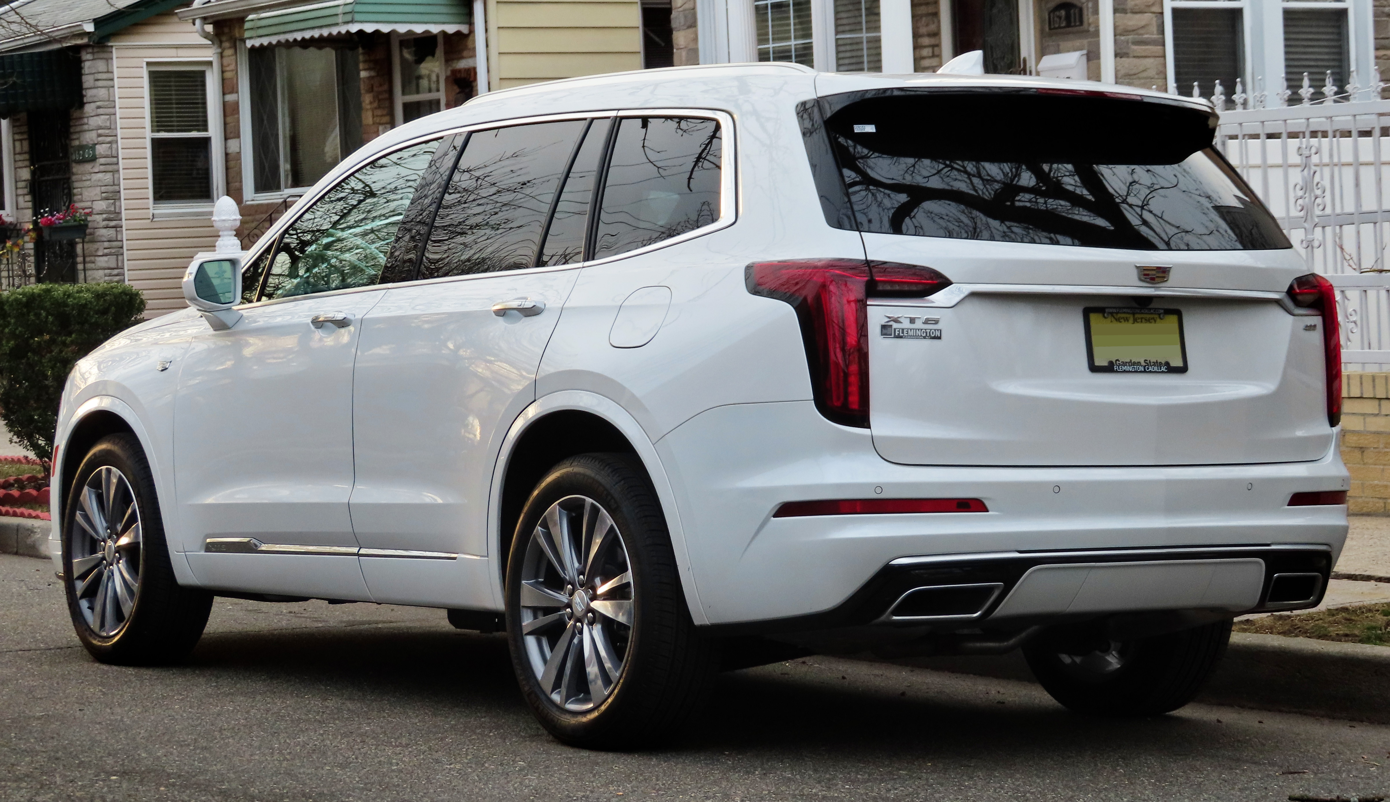 A 2020 Cadillac XT6 Premium photographed in Fresh Meadows, Queens, New York, USA